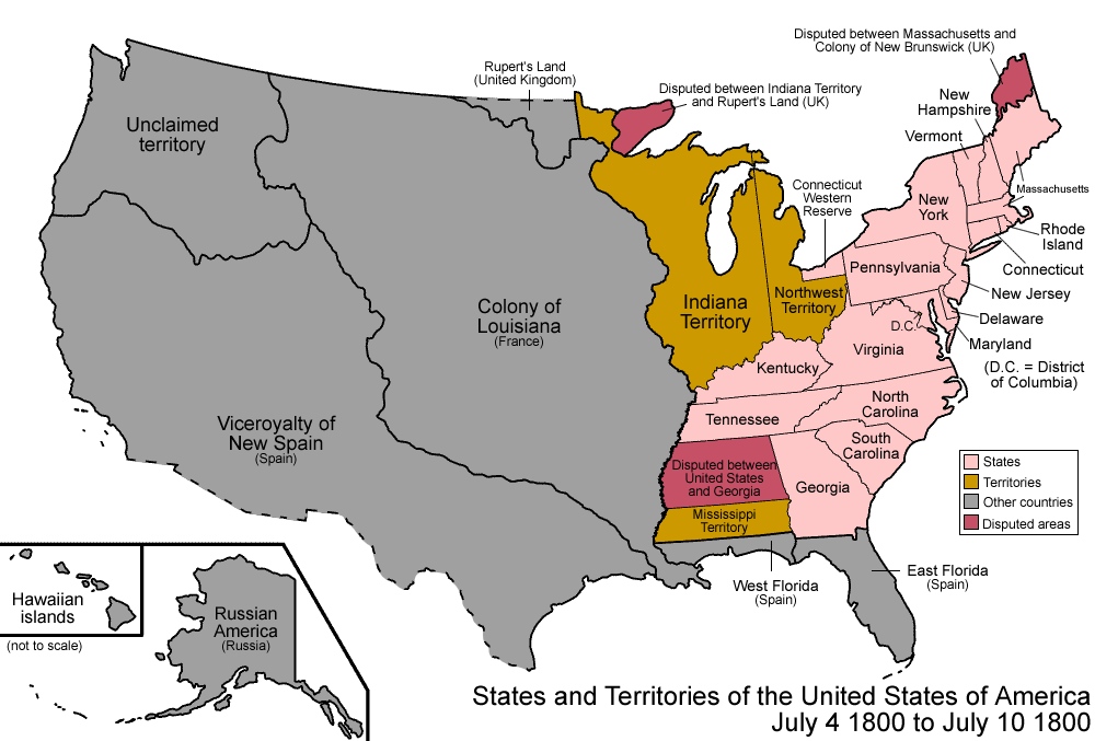 Map of the states and territories of the United States as it was from July 4 1800 to July 10 1800. On July 4 1800, Indiana Territory was split from Northwest Territory. On July 10 1800, Connecticut ceded its Western Reserve to the federal government.